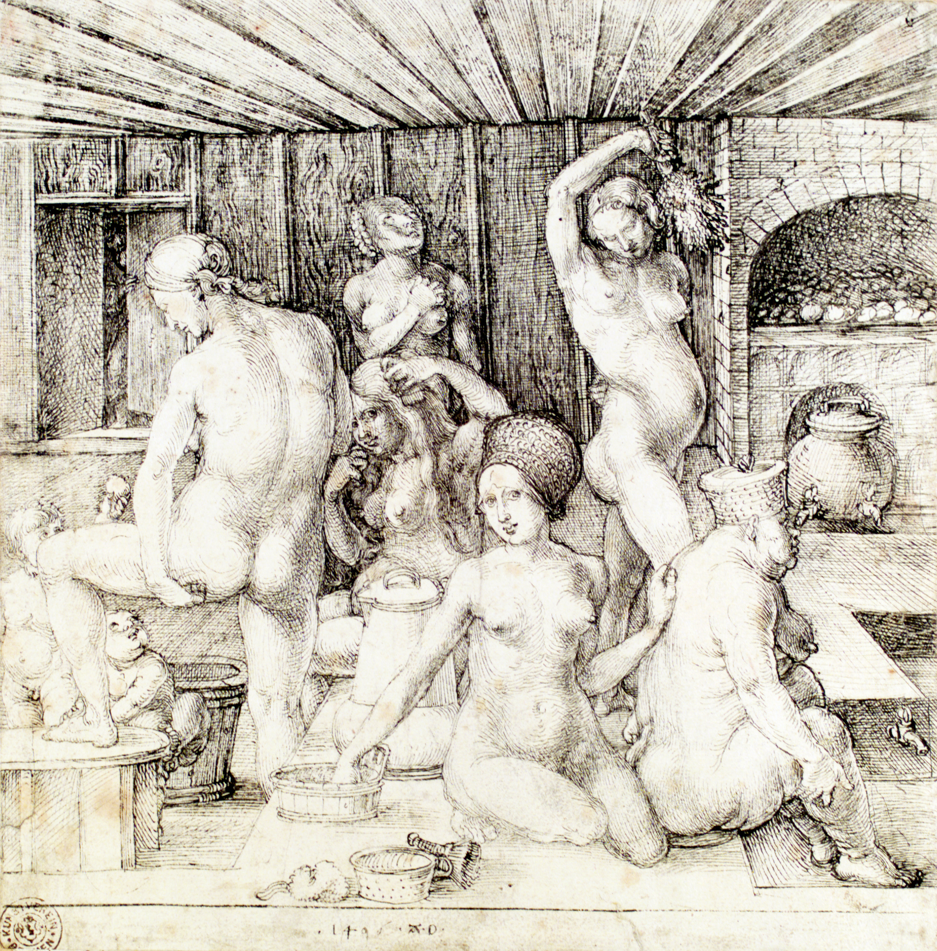 Albrecht Durer, "Woman's Bath" dated 1496, valued at $10 million.